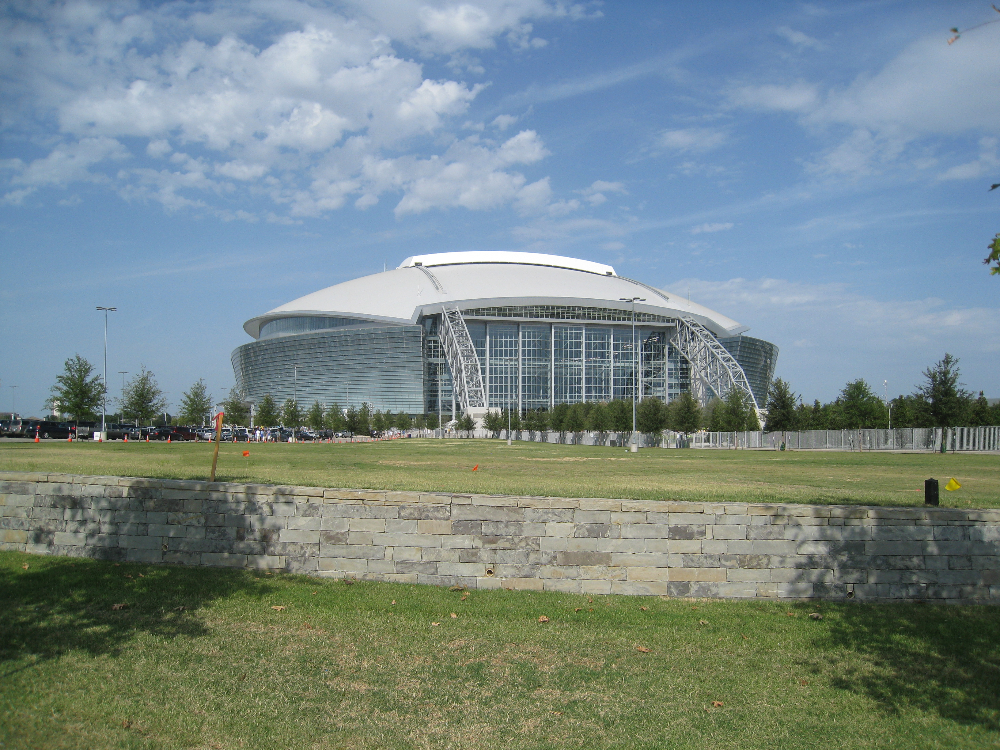 Cowboys_stadium_outside_view.JPG